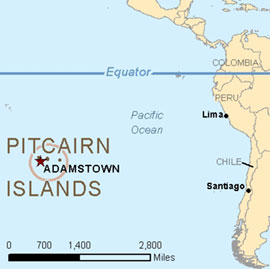 Location map of Pitcairn Islands.